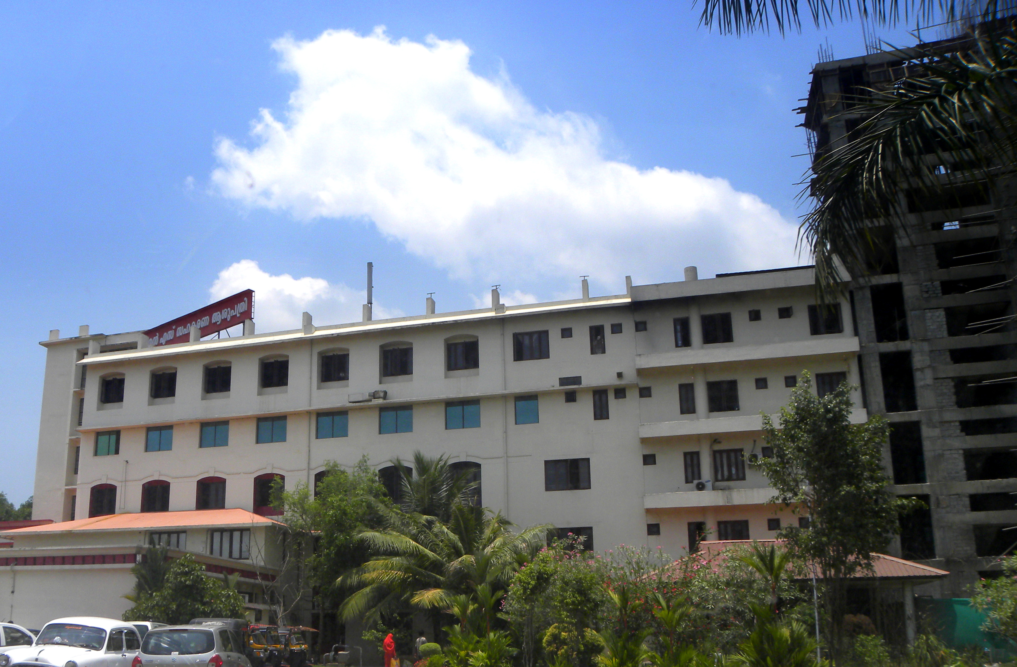 N.S Memorial Institute of Medical Sciences in Kollam city is the largest co-operative multi-specialty hospital in South Kerala.